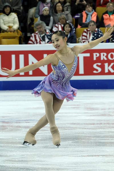 Amy LIN TPE in World Figure Skating Championships 2016 – 21st Place